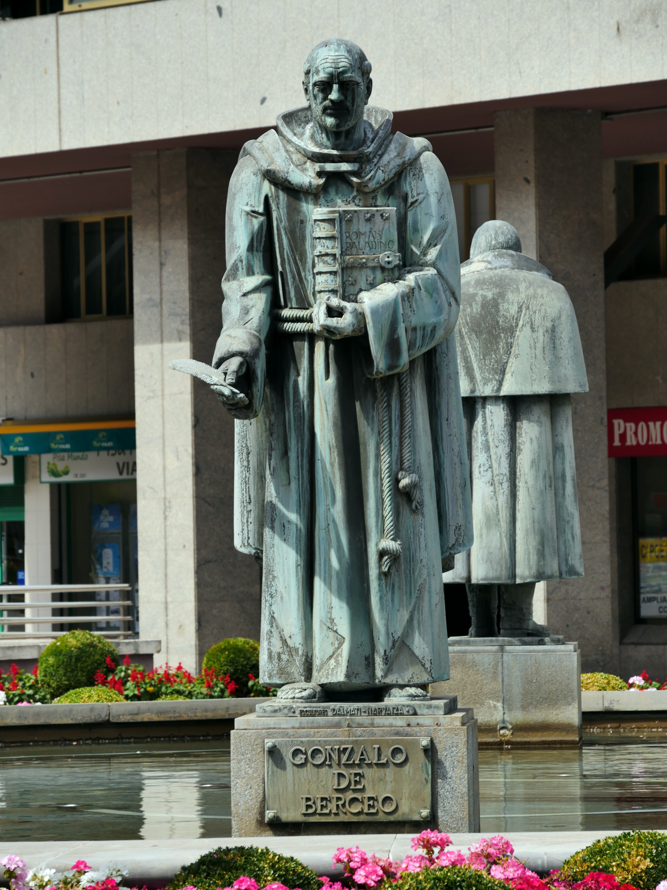 Statue of Gonzalo de Berceo in the Fountain of Riojanos Ilustres at Gran Via Avenue, Logroño, Spain.